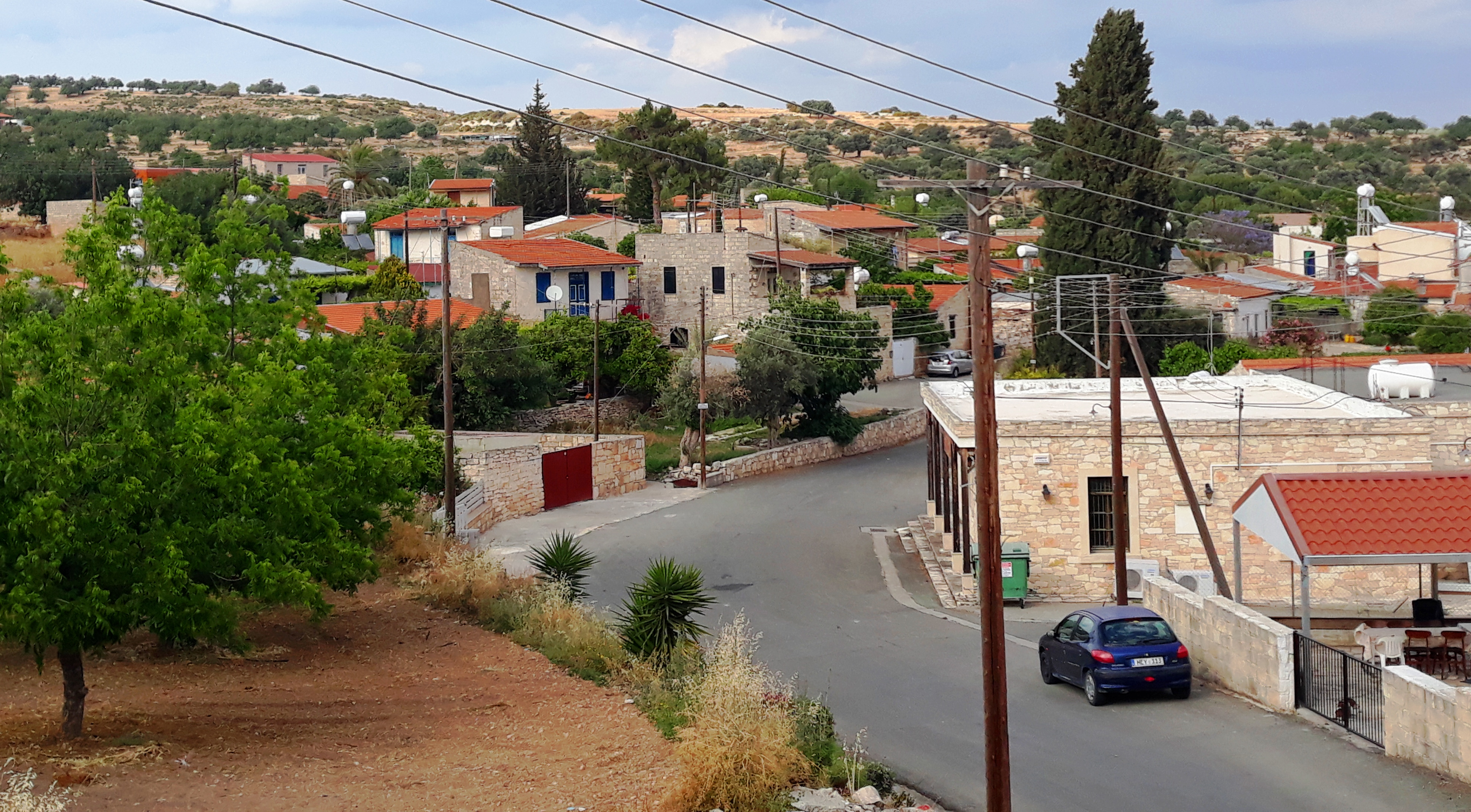 View of Prastio (Avdimou).